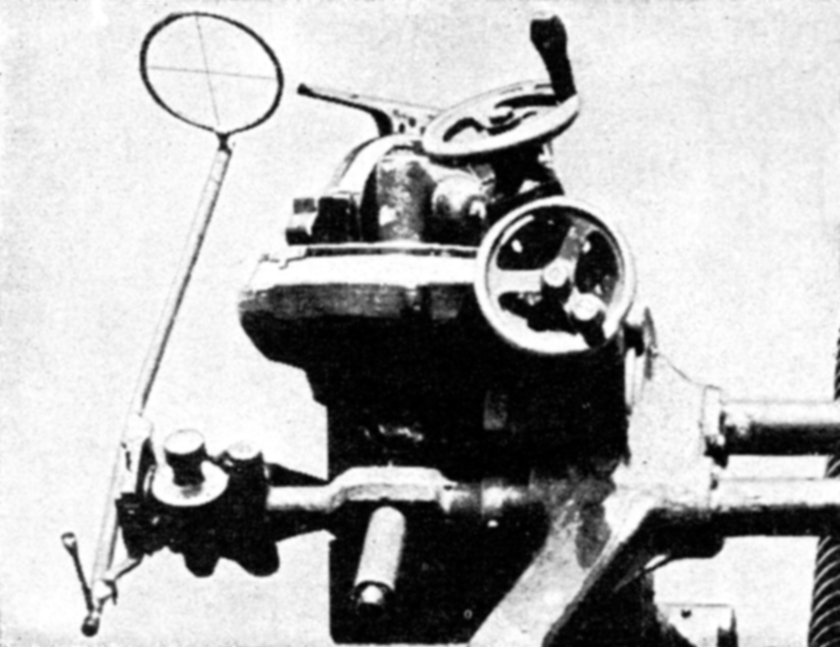 A Japanese mechanical lead computing sight mounted on a Type 96 25 mm machine gun twin mount (detail)